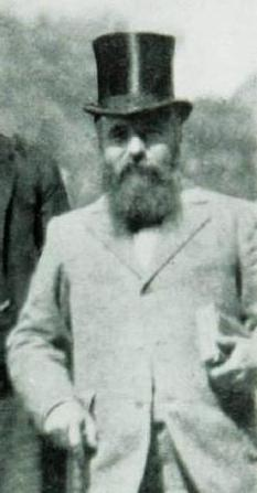 Paul Gerson Unna